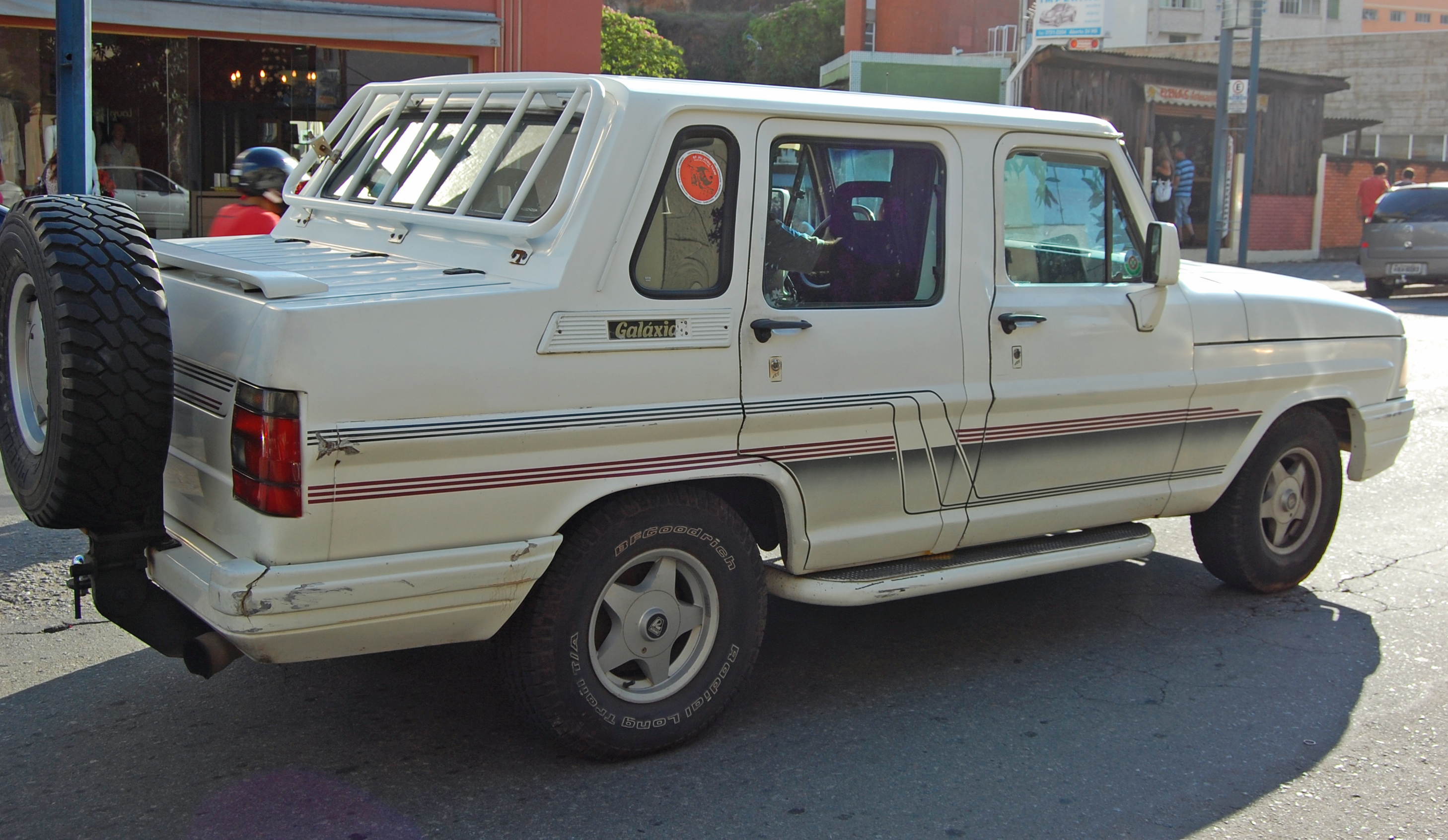 Ford F-1000 double cab (cabine dupla) conversion "Galáxia" with the MWM Turbodiesel engine, seen in Poços de Caldas, Brazil. These were built by a company called ARB (Auto Renovadora Boff Ltda.) in São Marcos (RS).